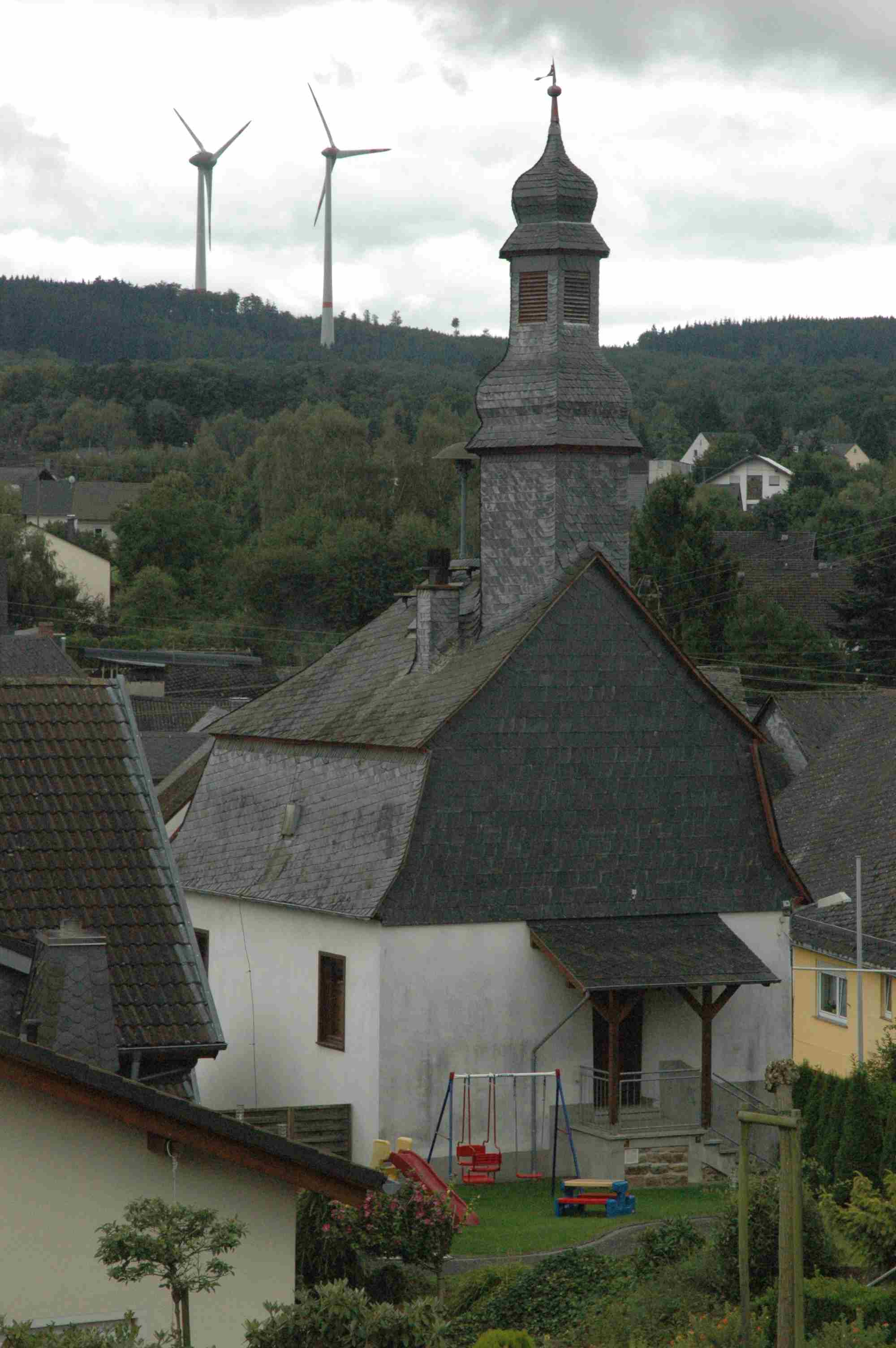 Ellern in the Hunsrück landscape, Windfarm Ellern - Germany